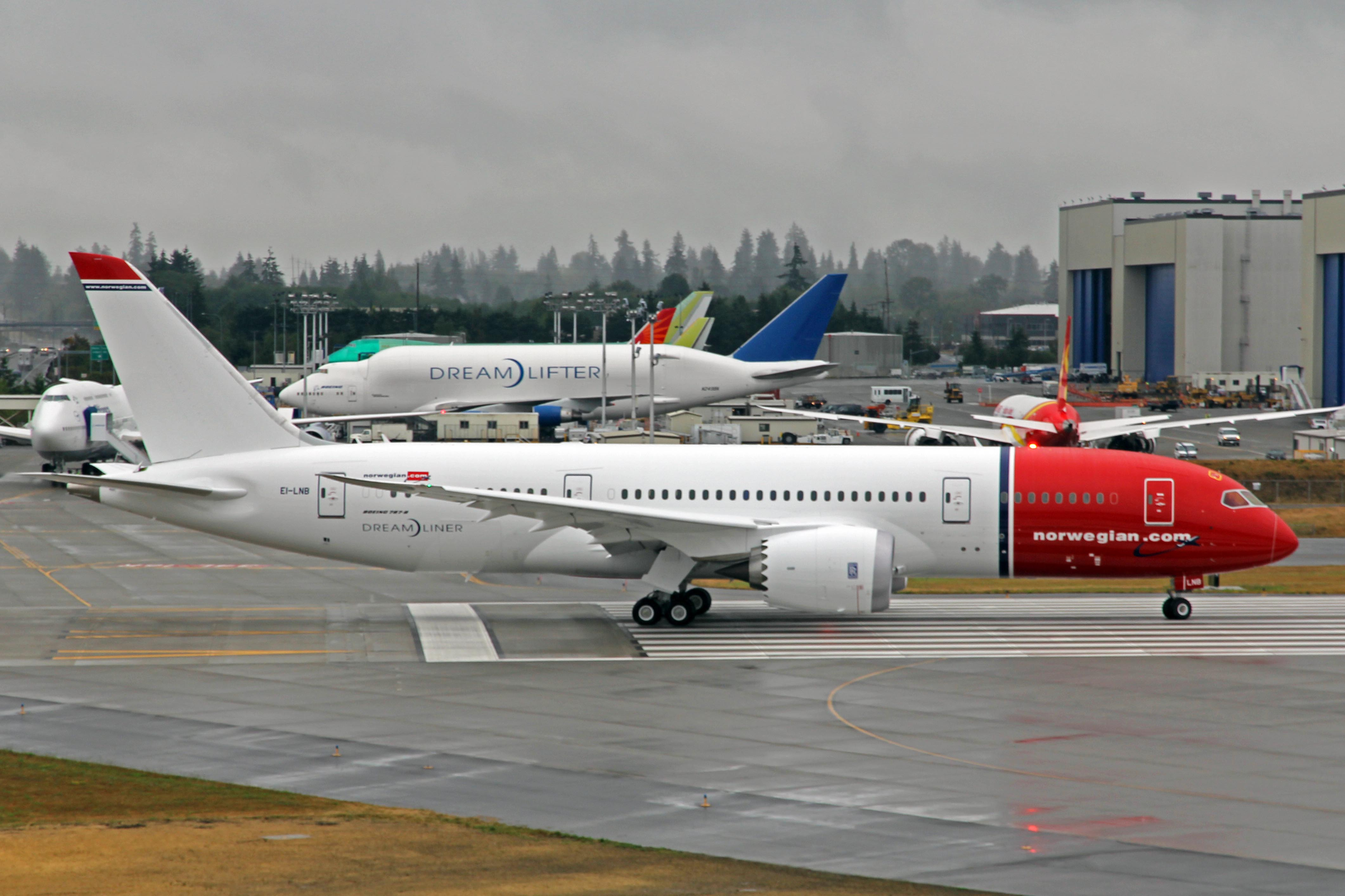 Norwegian Air Shuttle Boeing 787-8Q8 EI-LNB at Paine Field